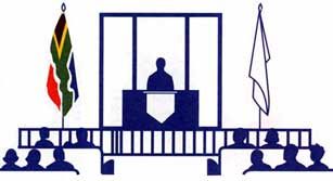 See Image:SouthAfricaFlagIndoors.jpg